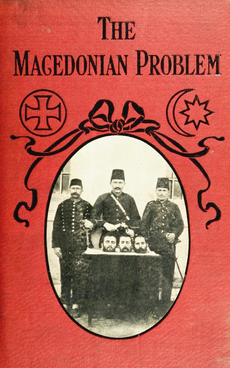 The cover of the book "The Macedonian Problem and its Proper Solution", published in 1904.